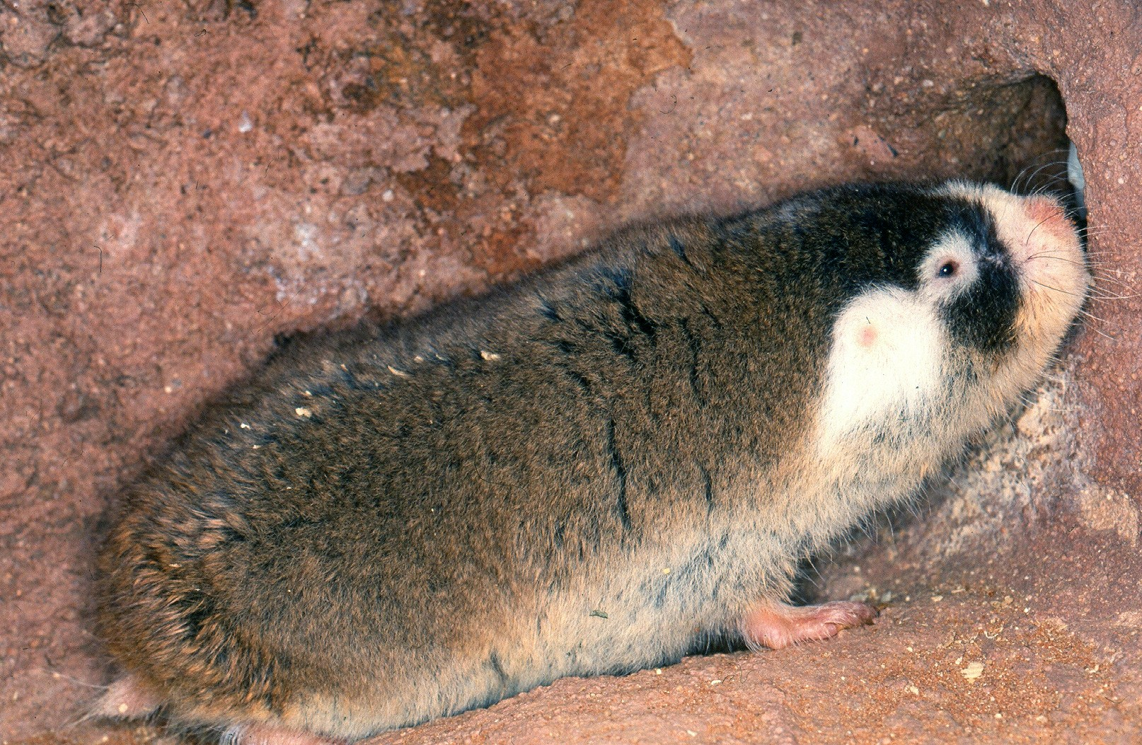 Cape mole rat (Georychus capensis) at the University of Cape Town, South Africa, 2000